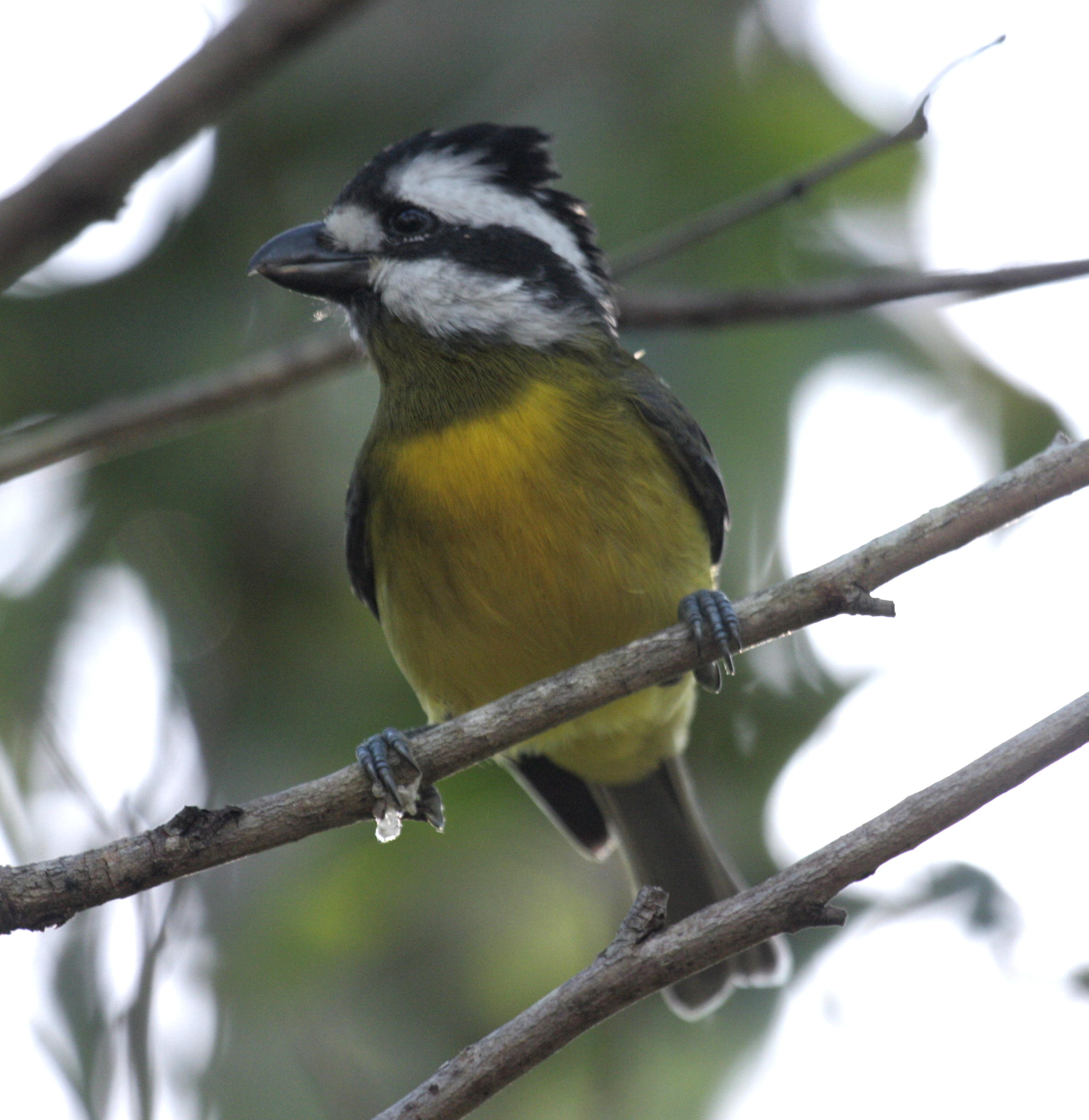 Crested Shrike-tit (Falcunculus frontatus) Postman's Track, Samsonvale, SE Queensland, Australia